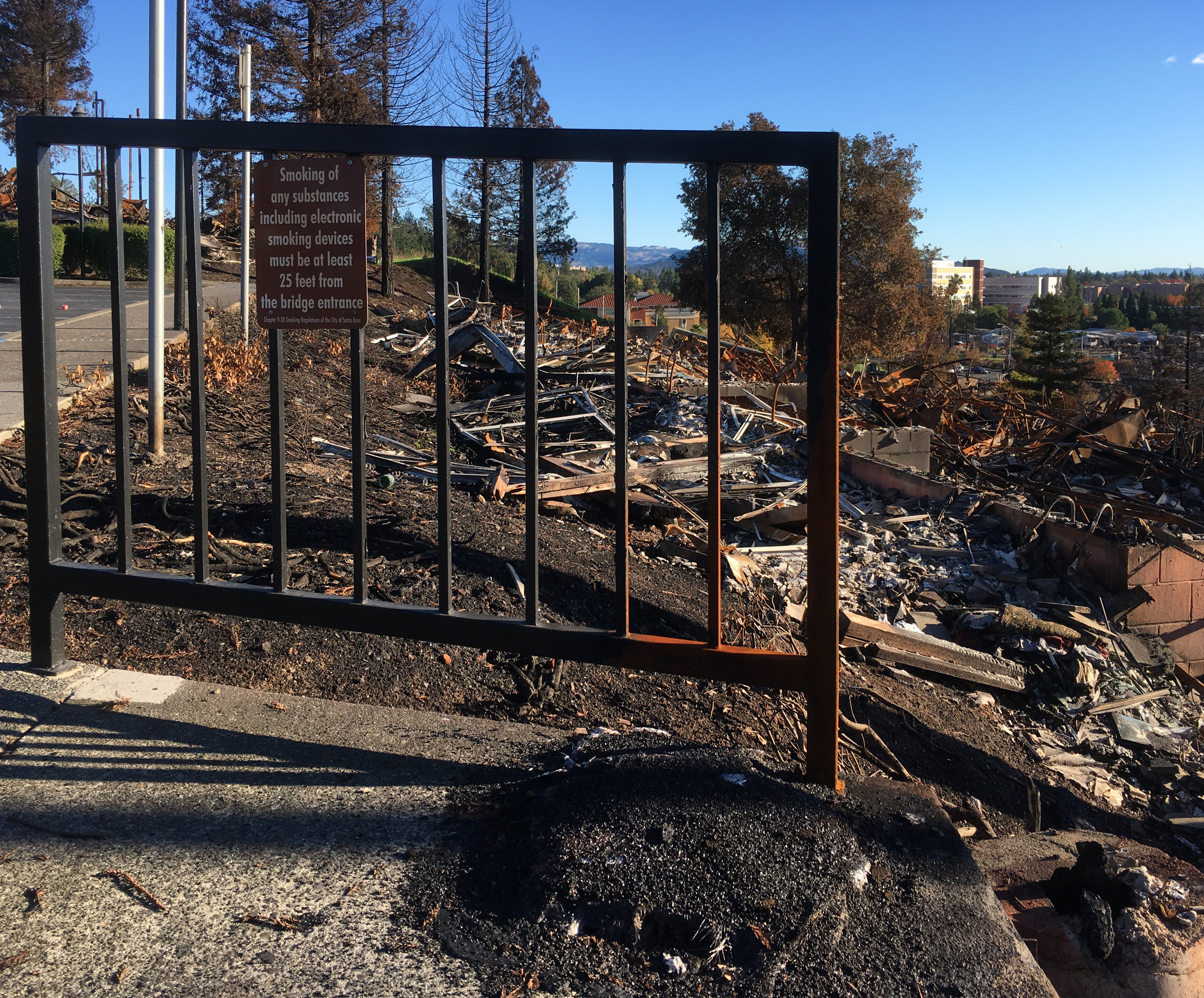 Tubbs Fire-damaged stairway between west wings of the Hilton Sonoma Wine Country Hotel (Santa Rosa, California)